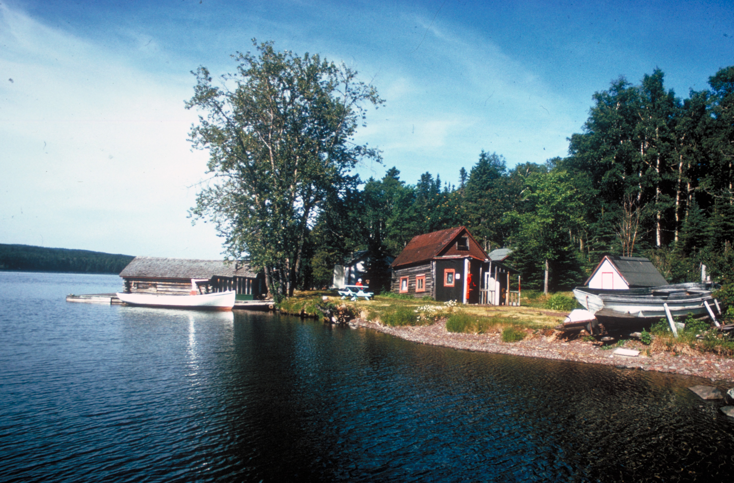 The Edisen Fishery at Isle Royale National Park, Michigan, United States, is listed on the US National Register of Historic Places (NRHP).NRHP reference number 77000152